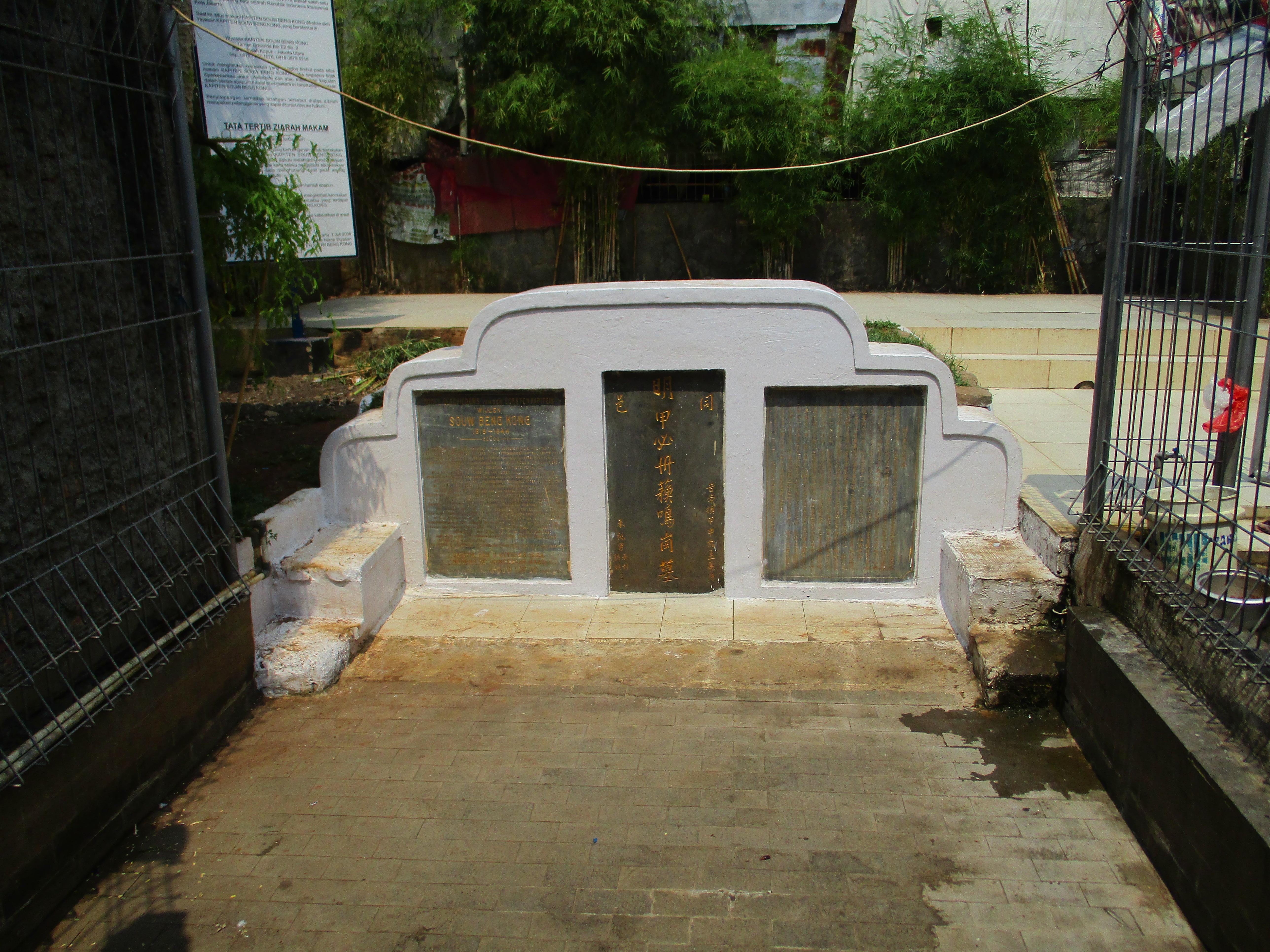 Tomb of Souw Beng Kong, Jalan Pangeran Jayakarta, Jakarta.